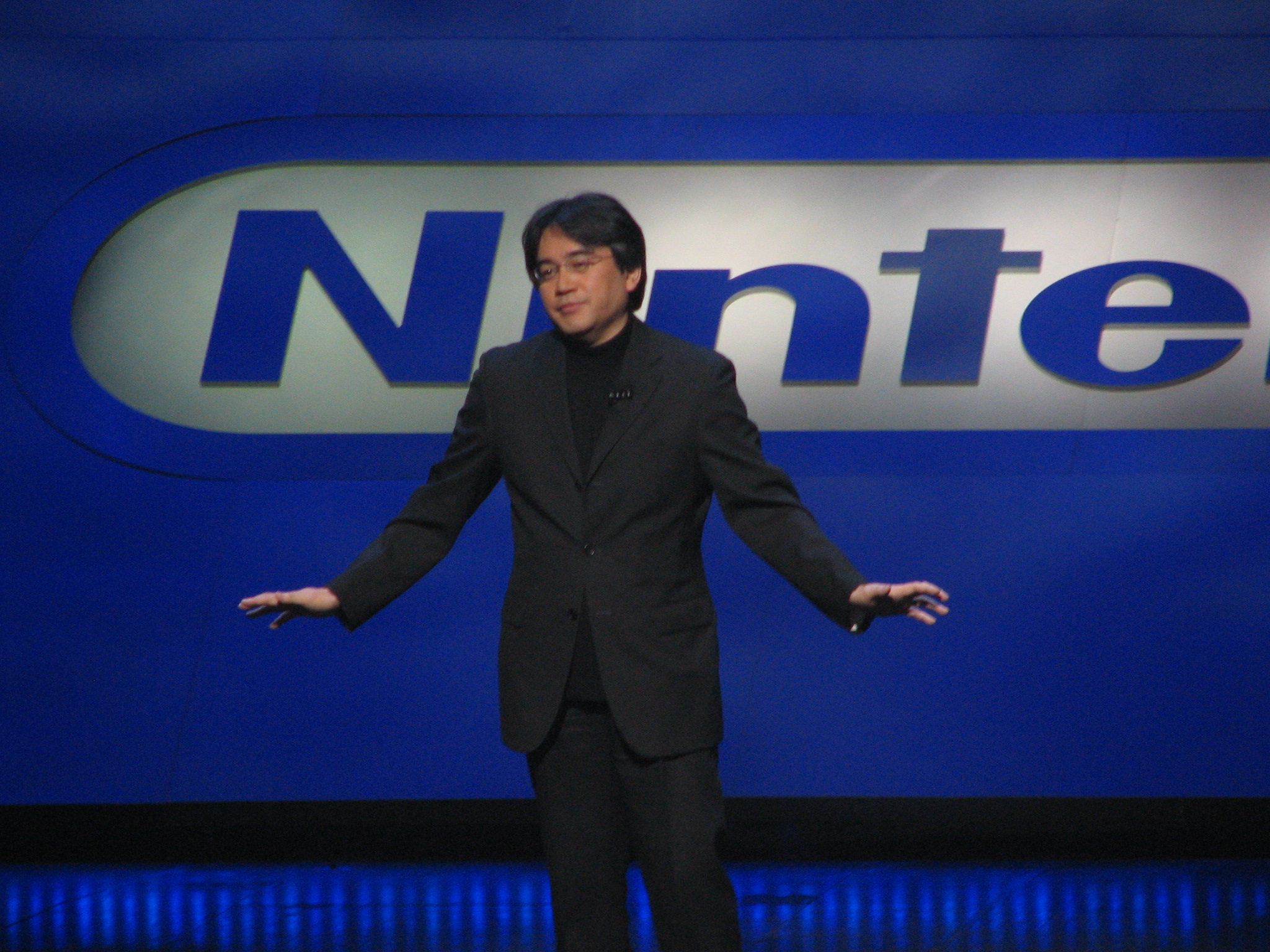 Satoru Iwata at E3 2006 Nintendo Press Conference at Kodak Theatre.